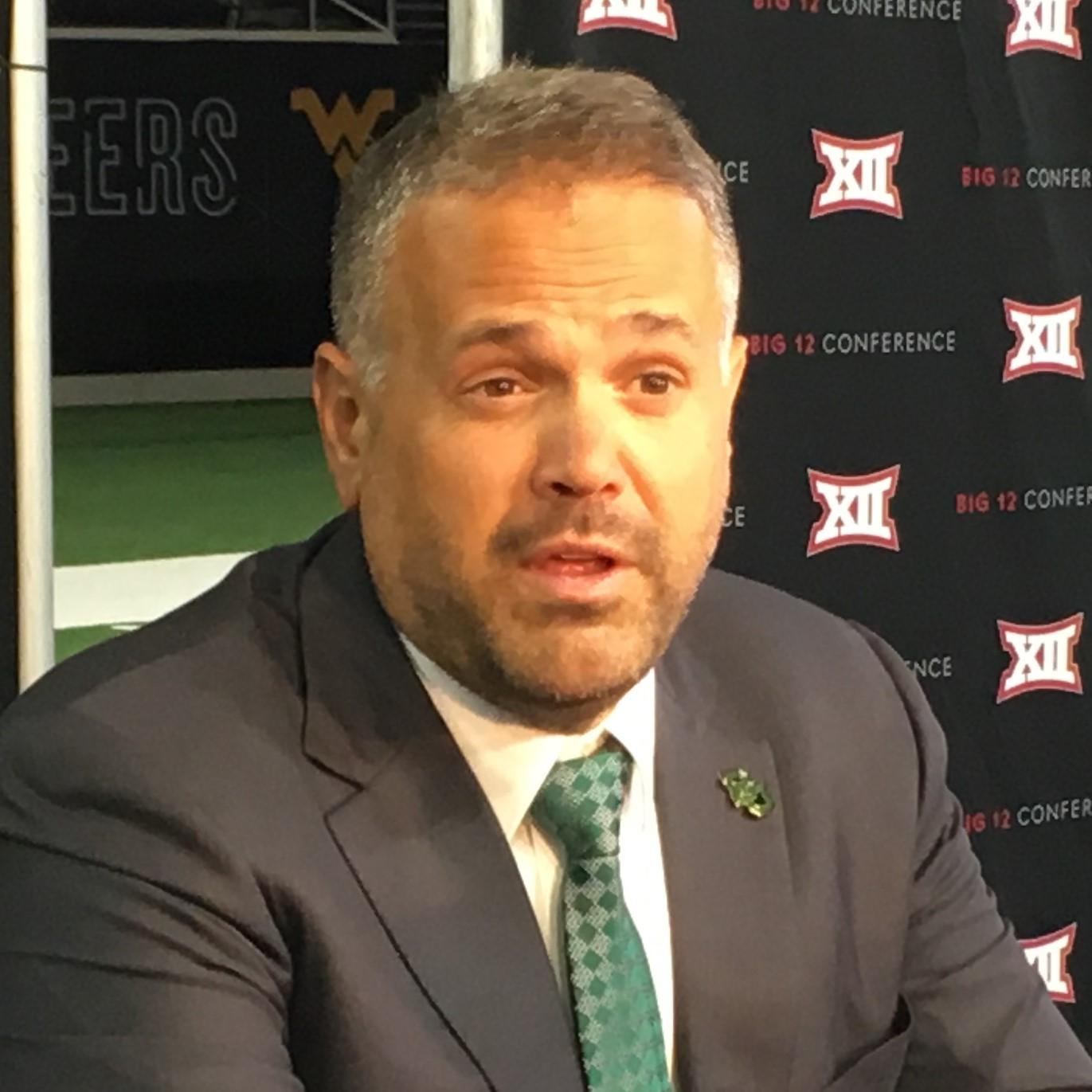 Matt Rhule, head coach of the Baylor Bears football team, at the 2017 Big 12 Conference Media Days in Frisco, Texas.